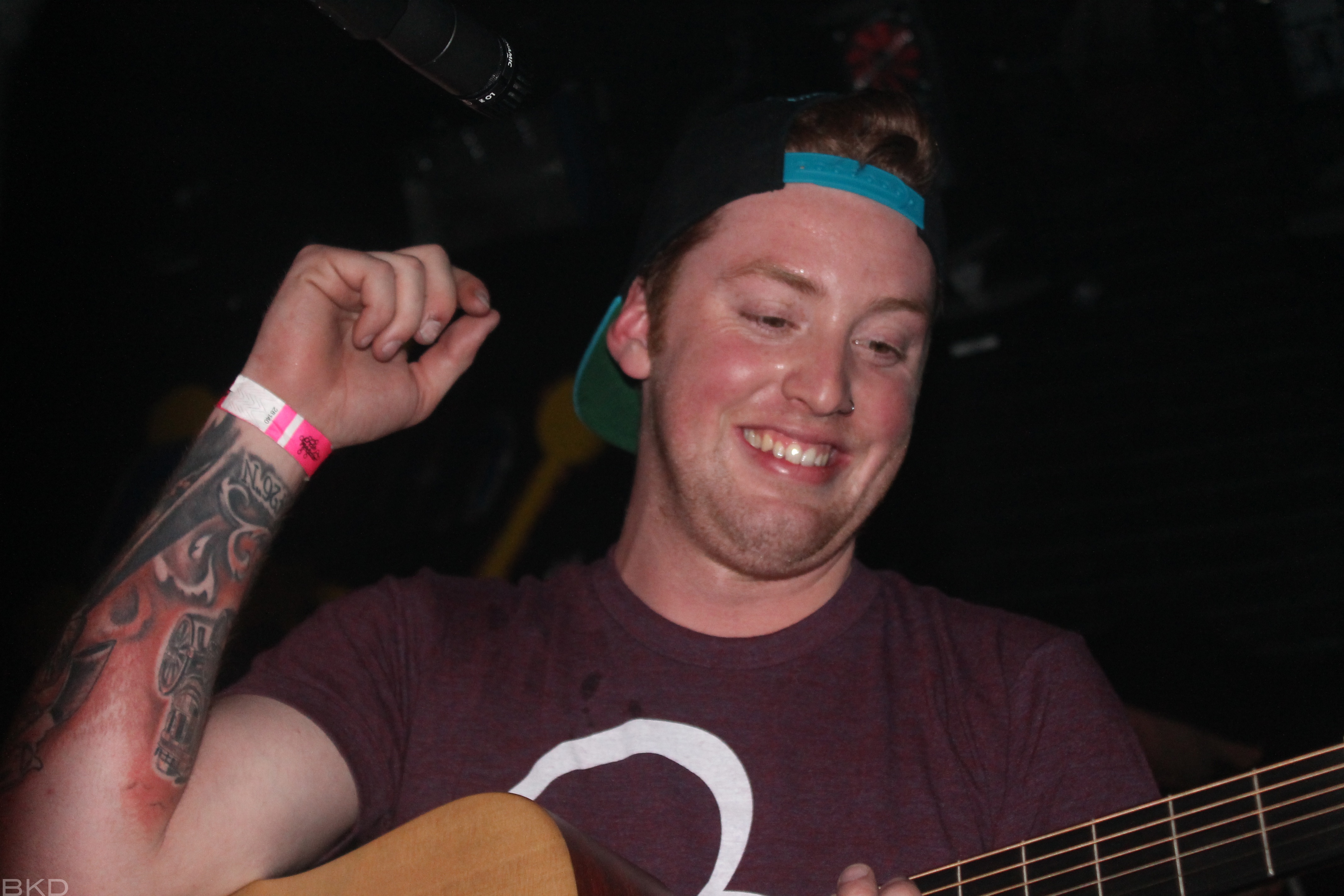 Sleeping With Sirens at Chain Reaction in Anaheim on 3/24/12.